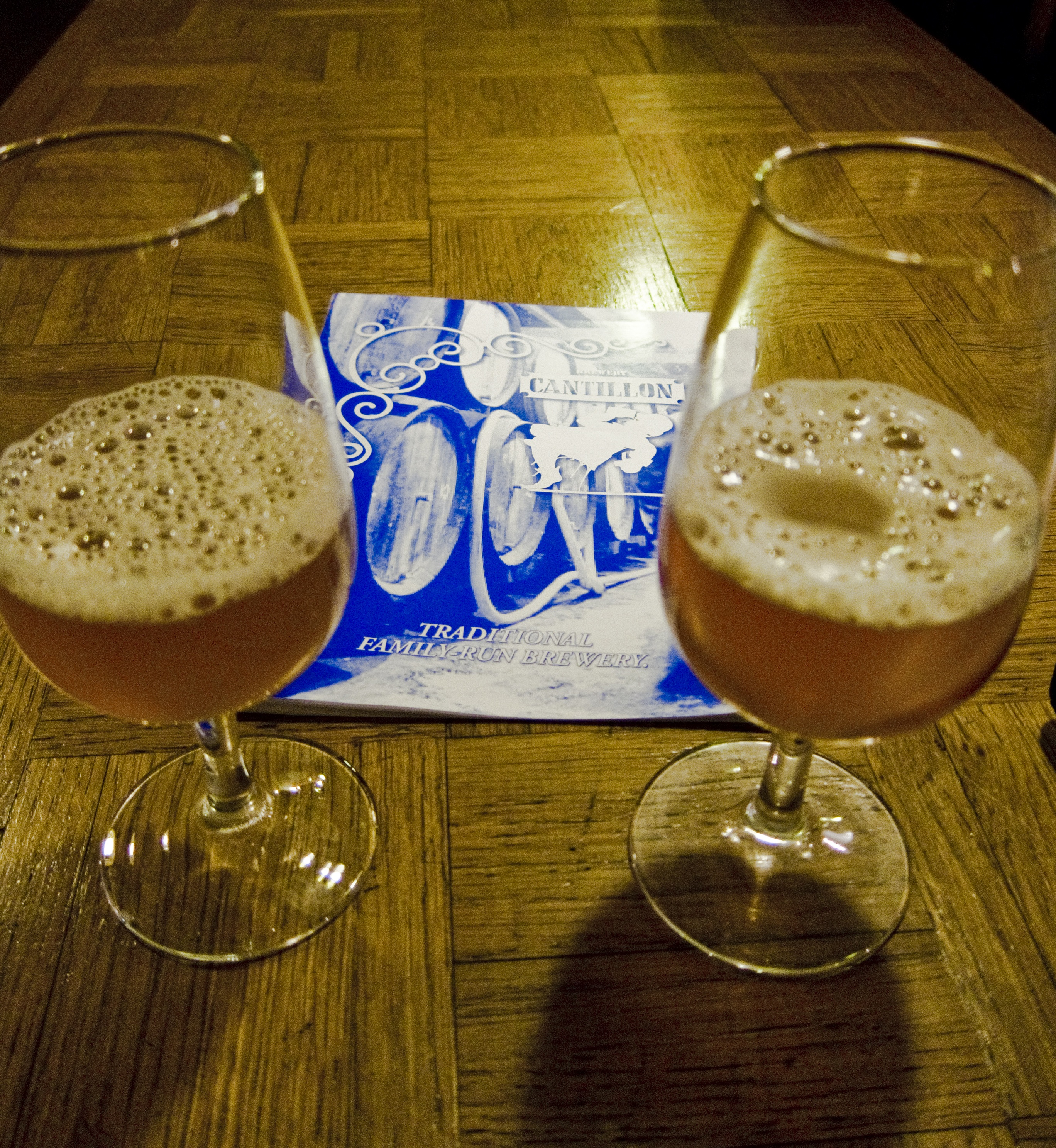 Gueuze tasting, Cantillon Brewery.